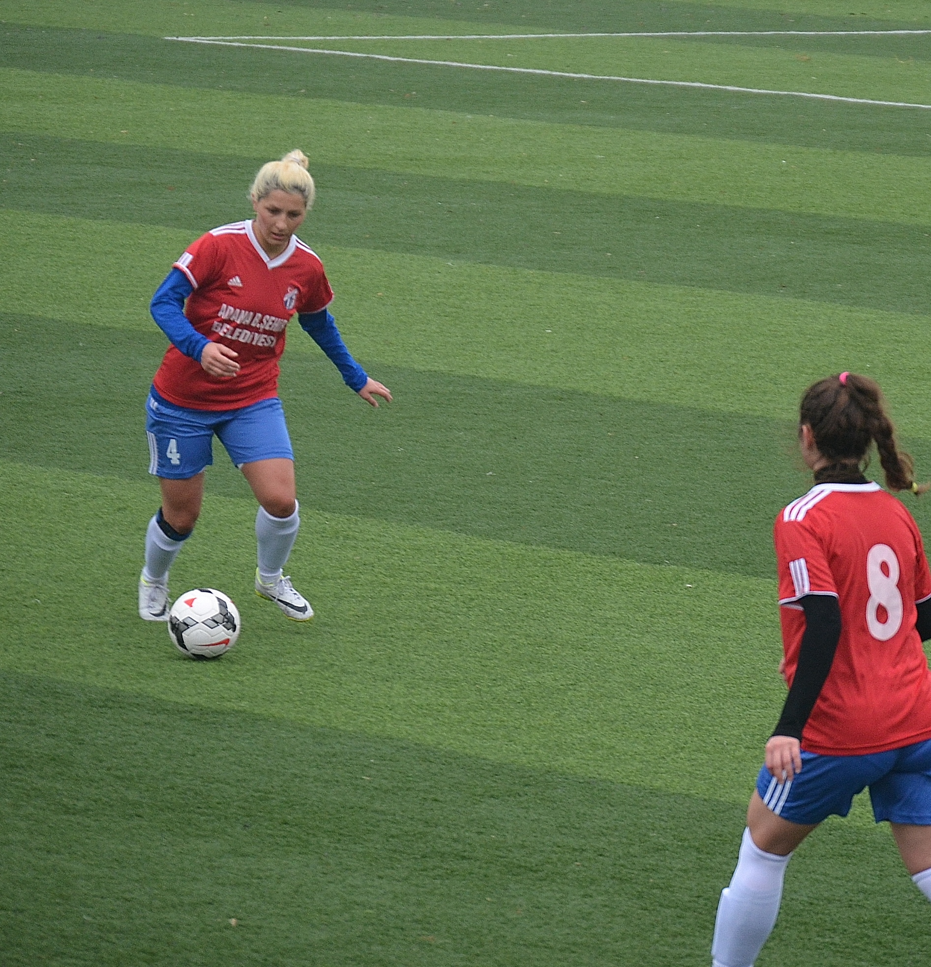 Nino Sutidze for Adana İdmanyurduspor in the 2014-15 season